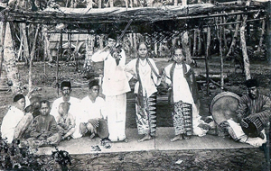 A troupe of Joget Dakong performence from Riau. Taken in the late 19th century